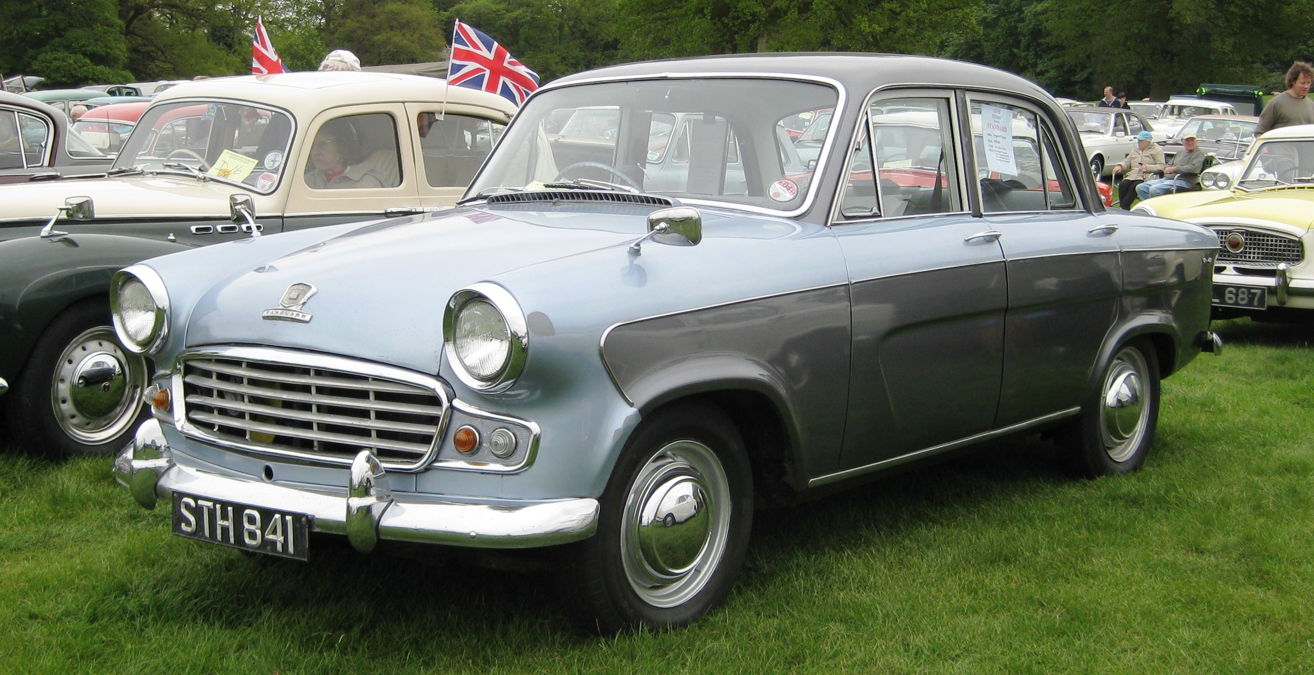 Standard Vanguard Vignale at Weston Park Transport Show